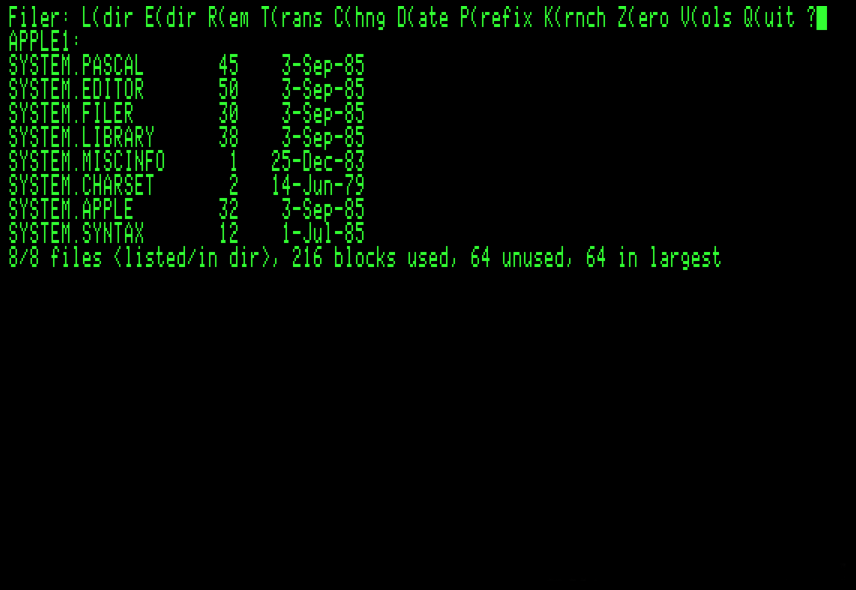 UCSD p-System Screenshot 2